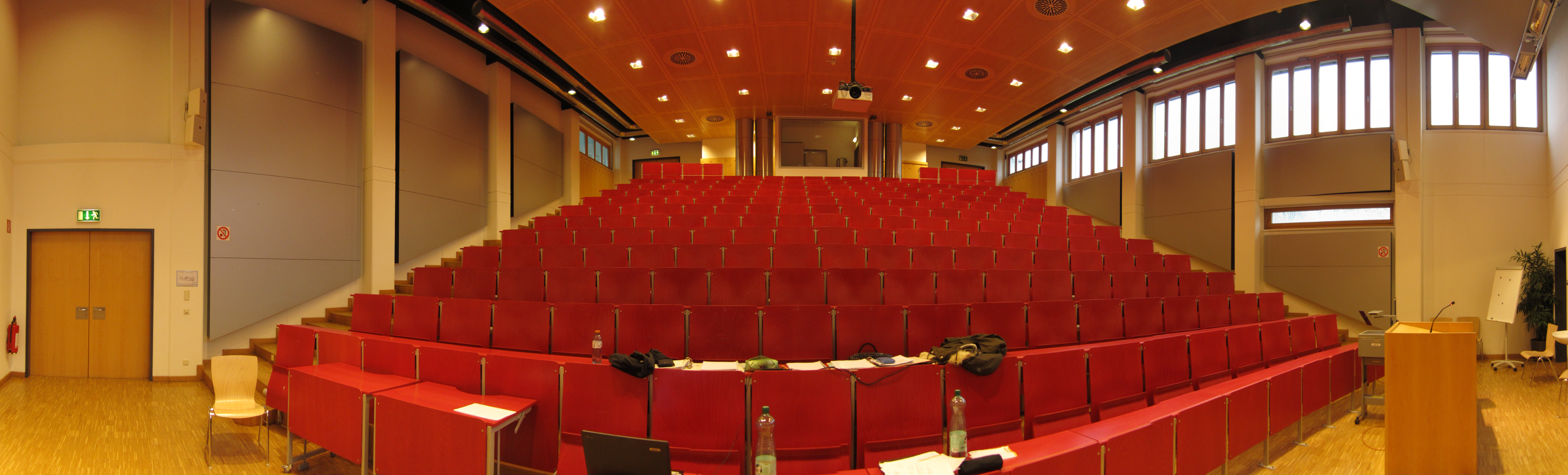 Lecture Hall B of the Alpen Adria University Deitsch: Hörsaal B der Alpen-Adria-Universität